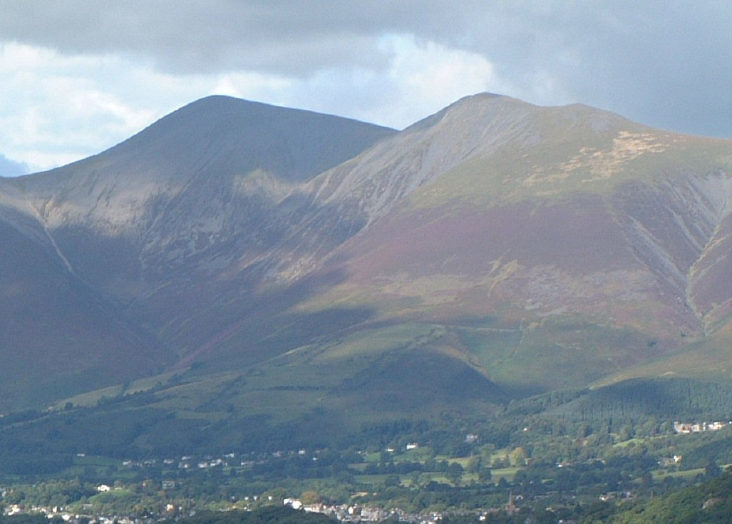 Personal photograph by Mick Knapton